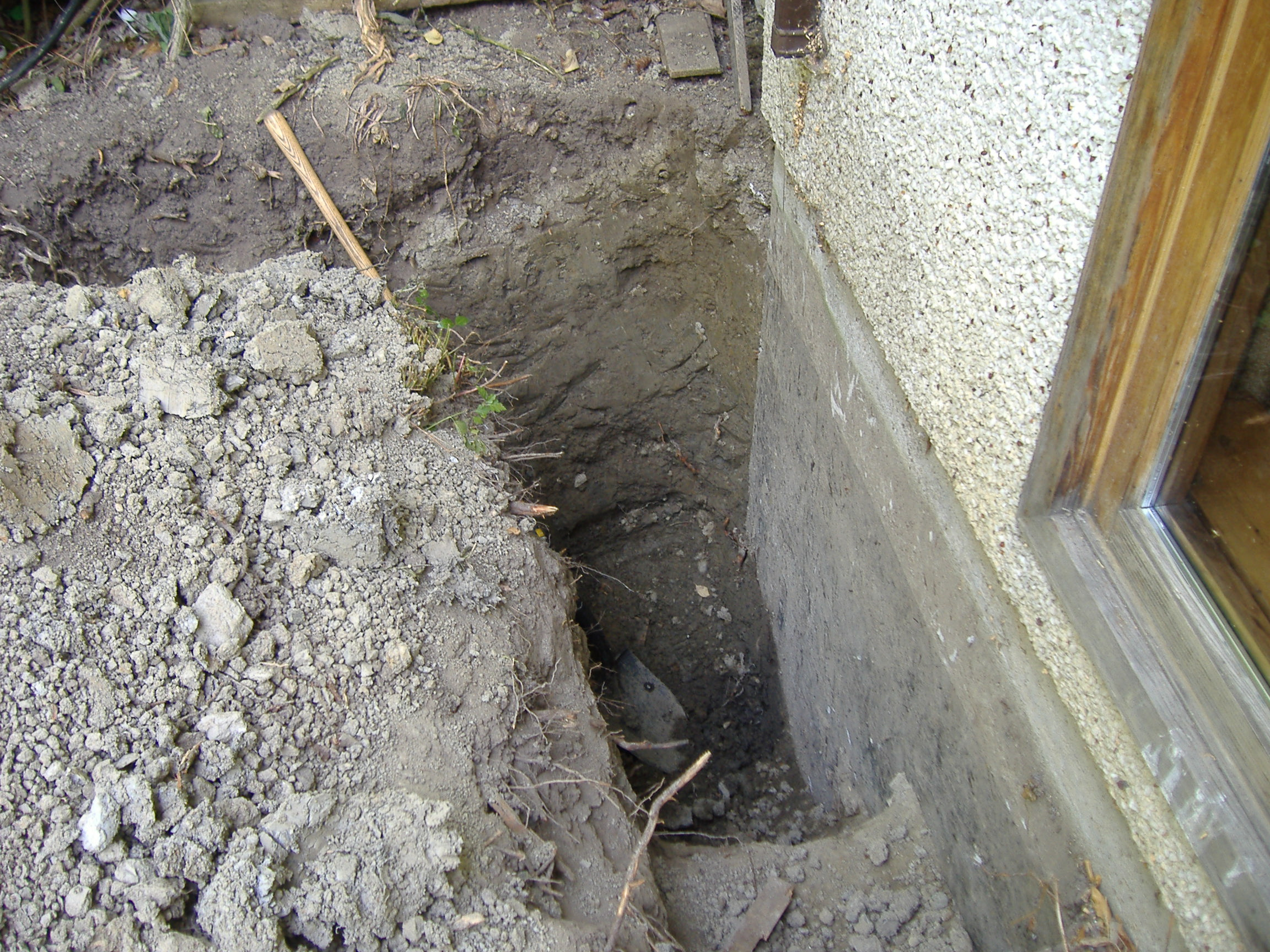 Excavation to uncover blocked drain at corner of house.